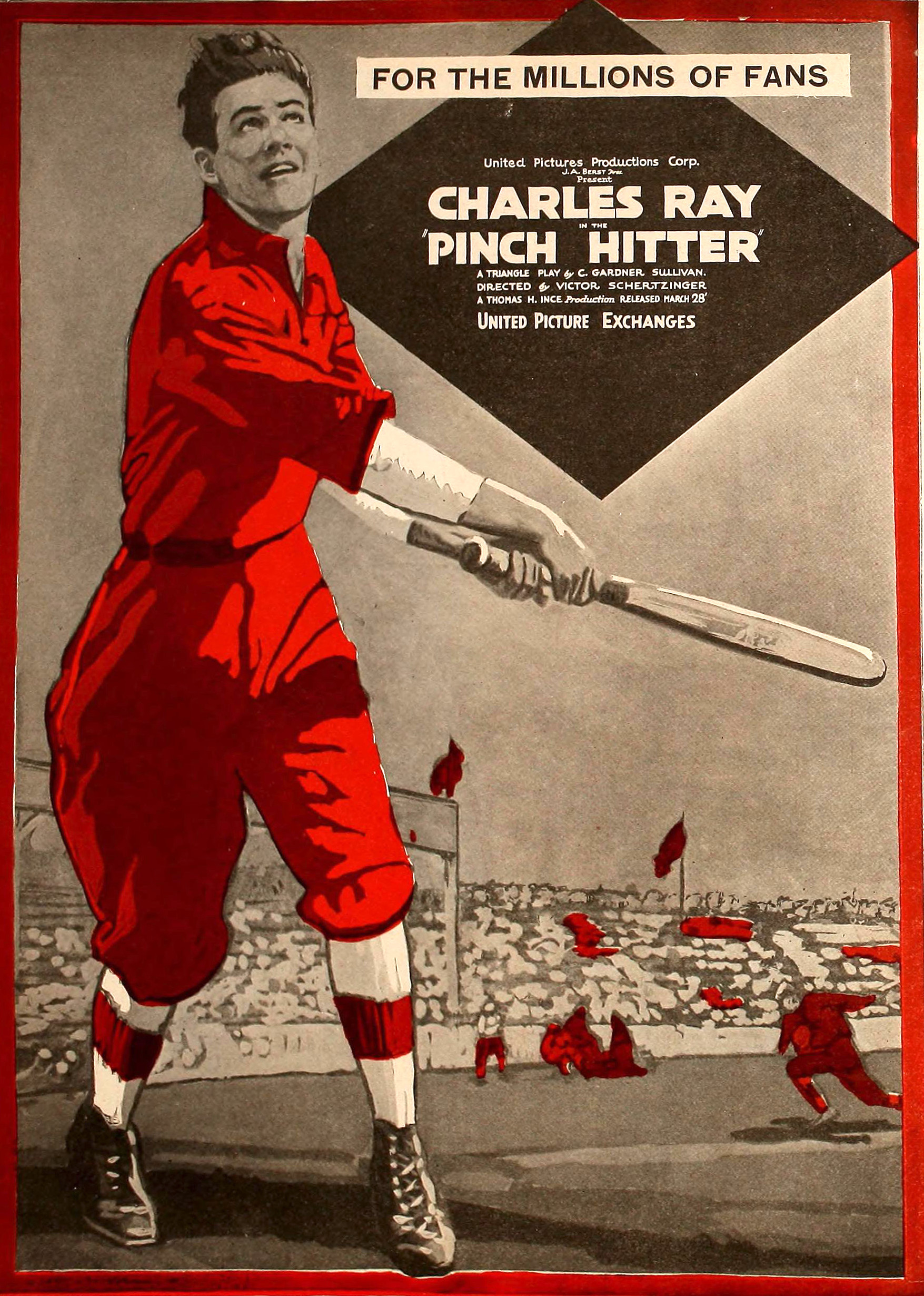 Advertisement for the American film The Pinch Hitter (1917) with Charles Ray, on page 3204 of the April 10, 1920 Motion Picture News. Apparently an ad for a 1920 re-release of the film.